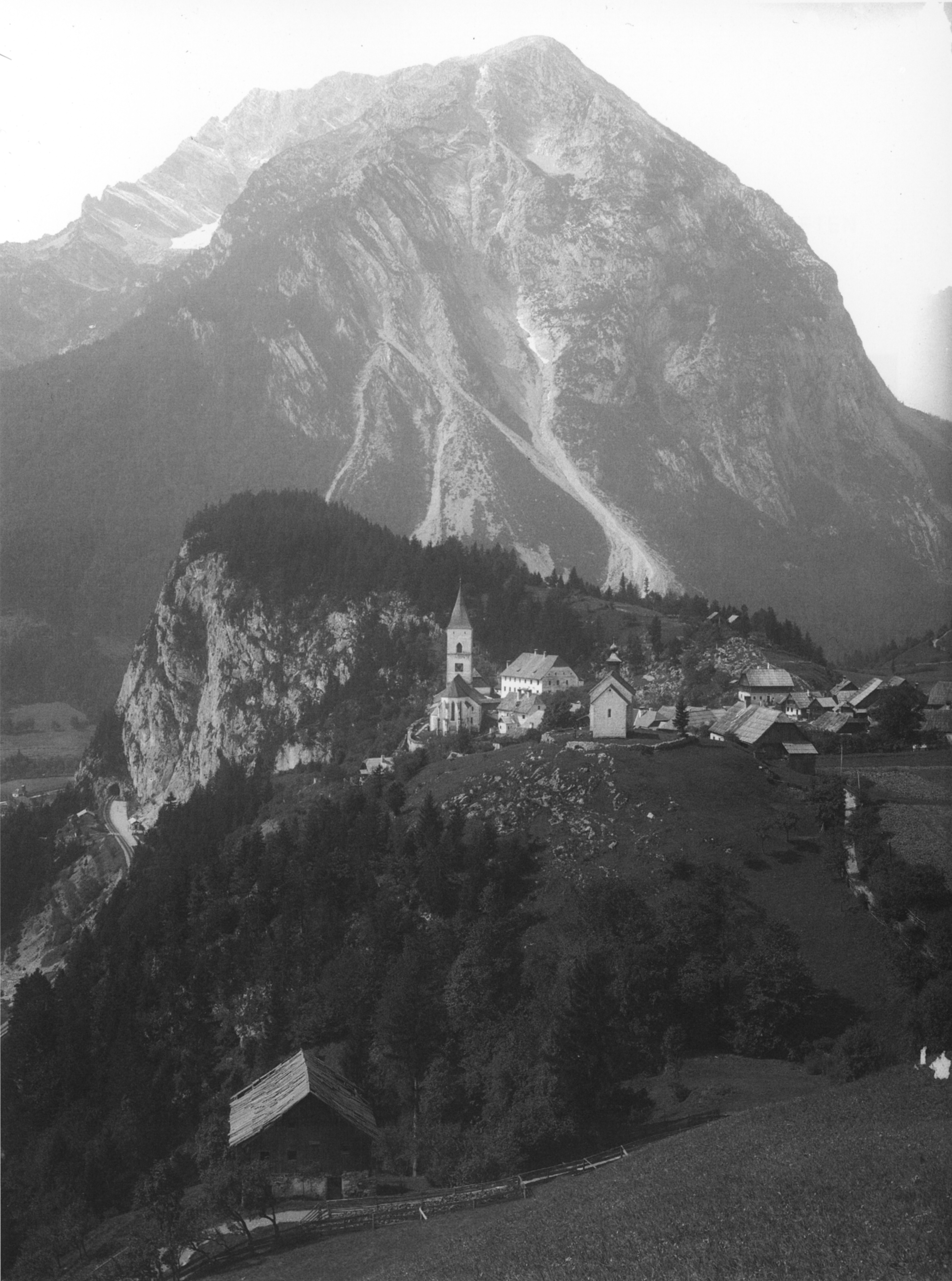 Petschar, Friedlmeier, Steiermark in alten Fotografien, Ueberreuther Verlag Wien. Scanprojekt Community Projektbudget 2012 This scan or this PDF-file was created within the GLAM-project Bookscanning, supported by Wikimedia Germany and Wikimedia Austria as a part of the community-project to capture books, documents and pictures which are not eligible to copyright or for which the copyright has expired. This document describes or depicts an object which is located in Austria today. Texts are written German language. Send requests for uncompressed scans to Hubertl. This work is in the public domain in its country of origin and other countries and areas where the copyright term is the author's life plus 100 years or fewer. You must also include a United States public domain tag to indicate why this work is in the public domain in the United States. This file has been identified as being free of known restrictions under copyright law, including all related and neighboring rights.